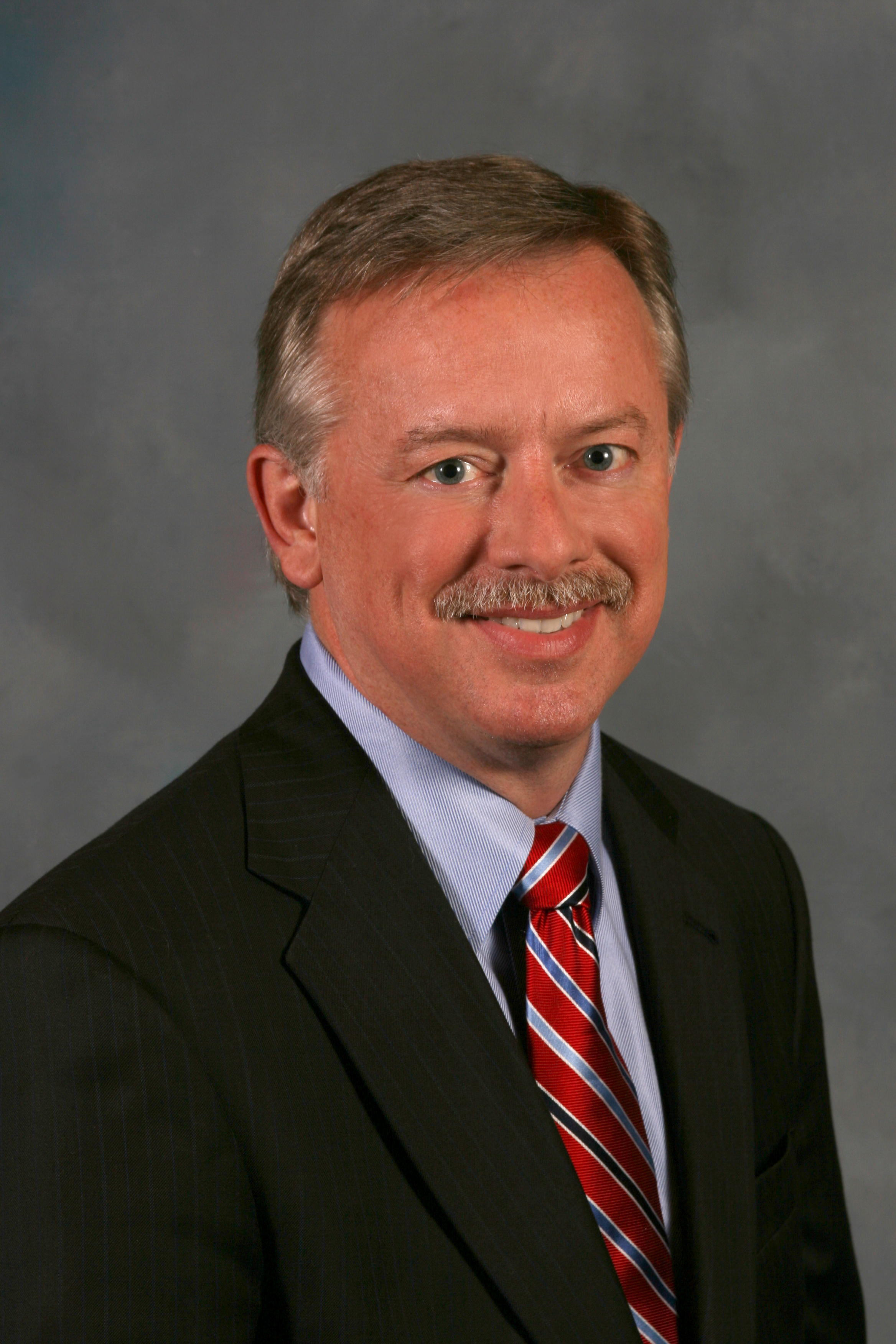 Official Photo of Lt. Governor Jeff Kottcamp